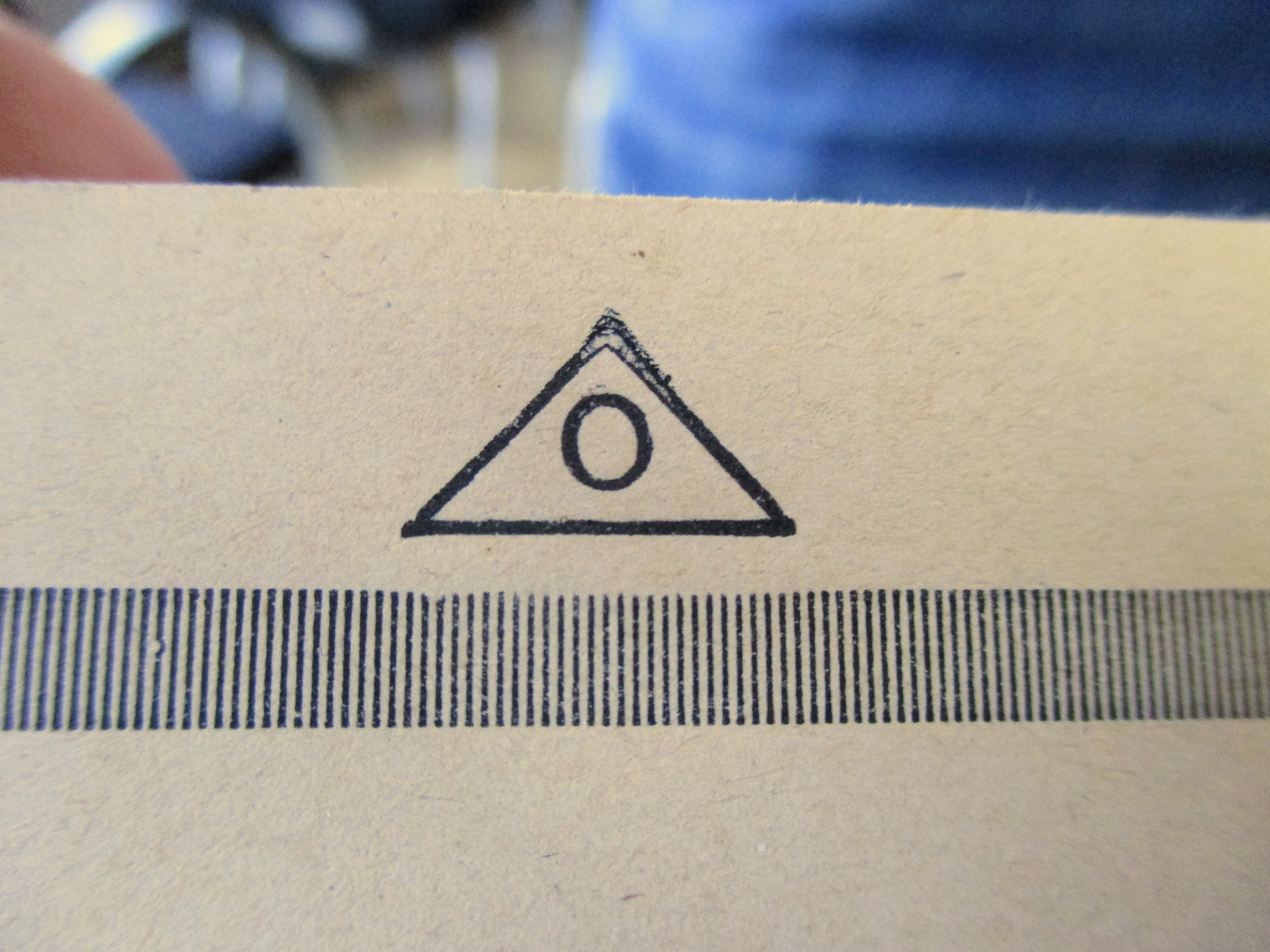 Export mark of a book in the first world war to Marking a work to recognize how the transport and trade may take place.